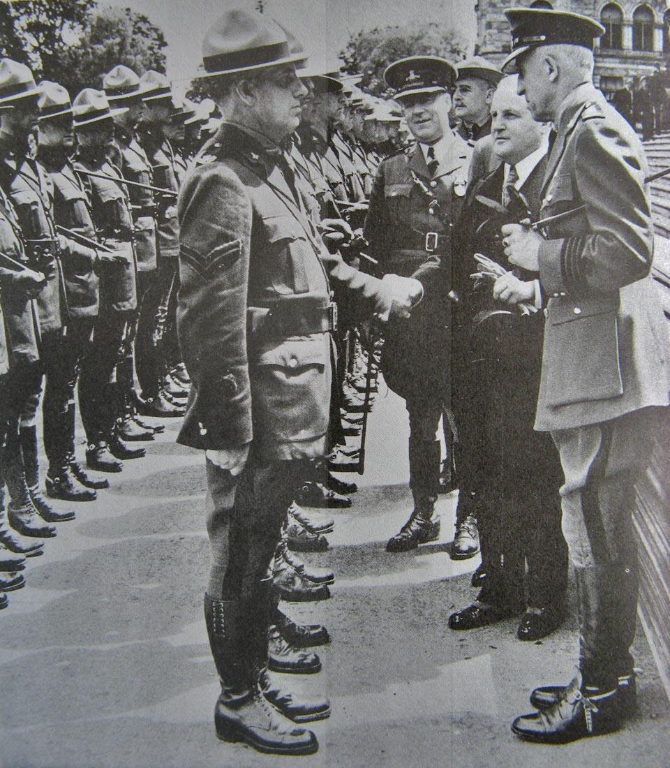 British Columbia Provincial Police. Inspecting the troops for the 1939 royal visit.